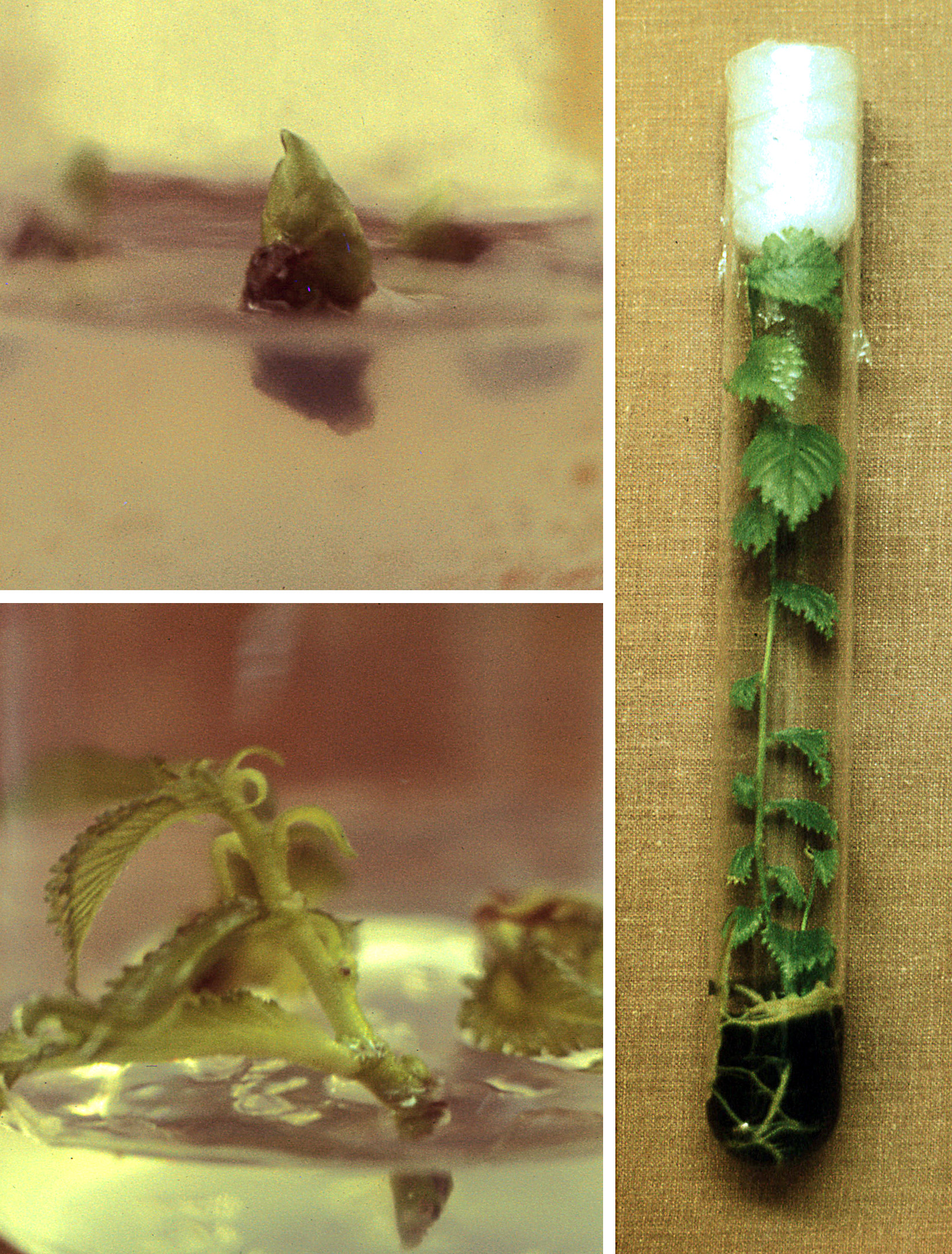 Ulmus chenmoui in vitro